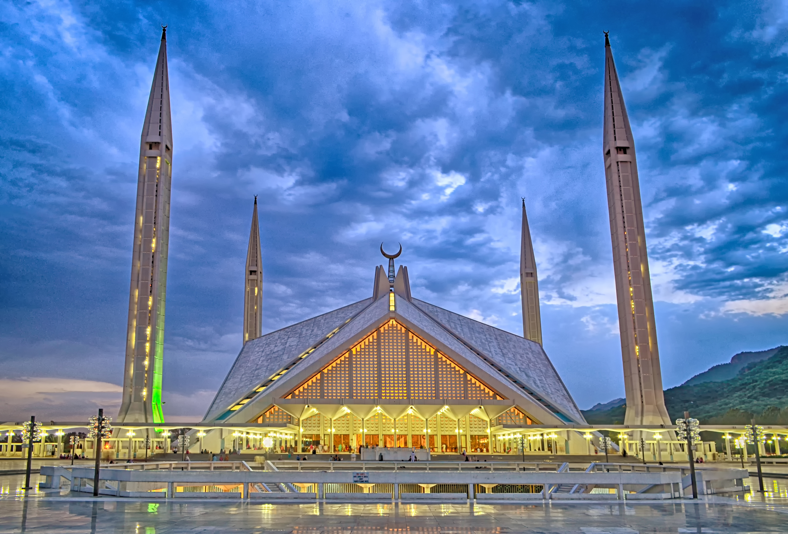 Faisal Mosque This is a photo of a monument in Pakistan identified as the ICT-5